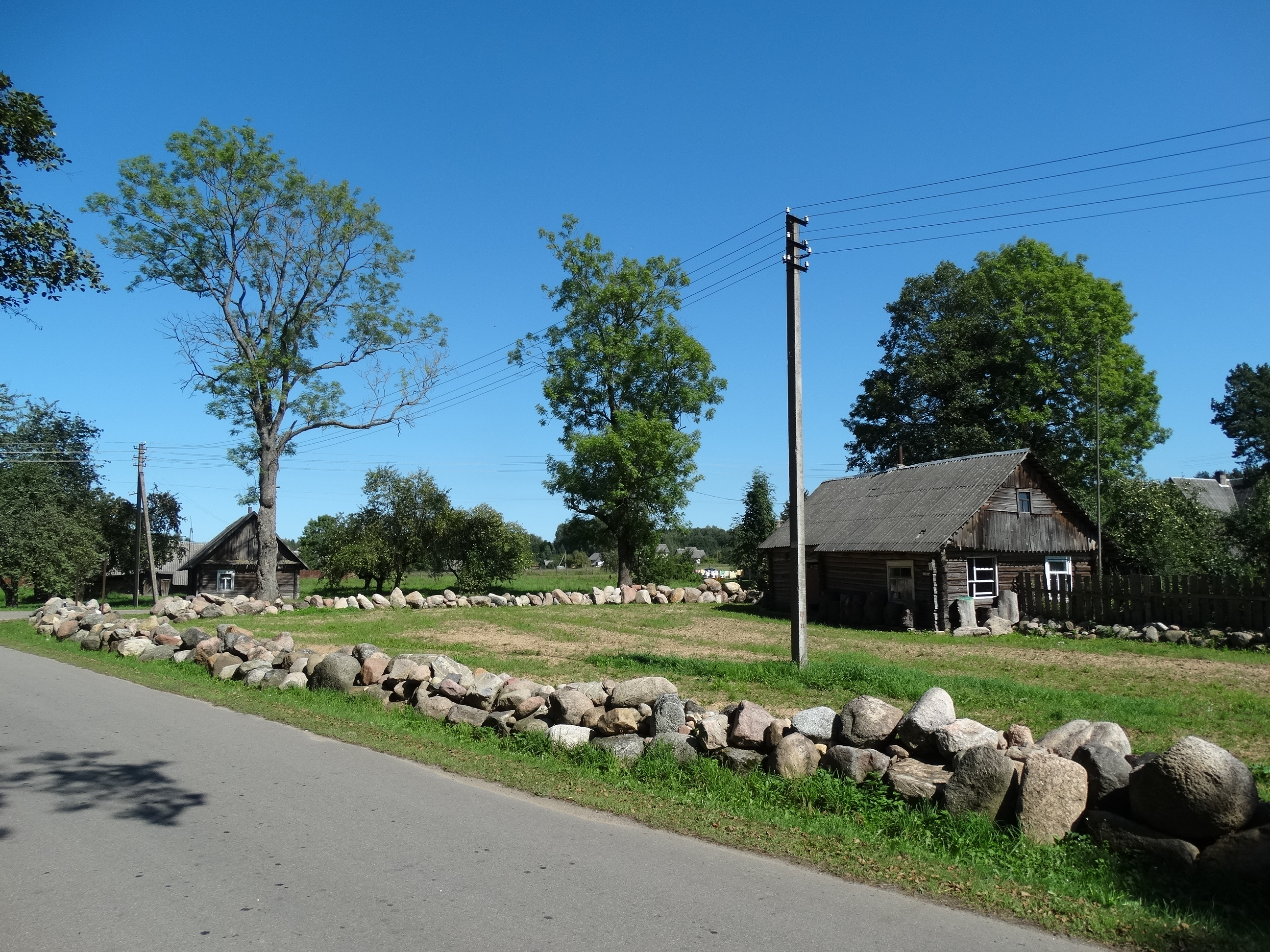 Sariai, Švenčionys district, Lithuania